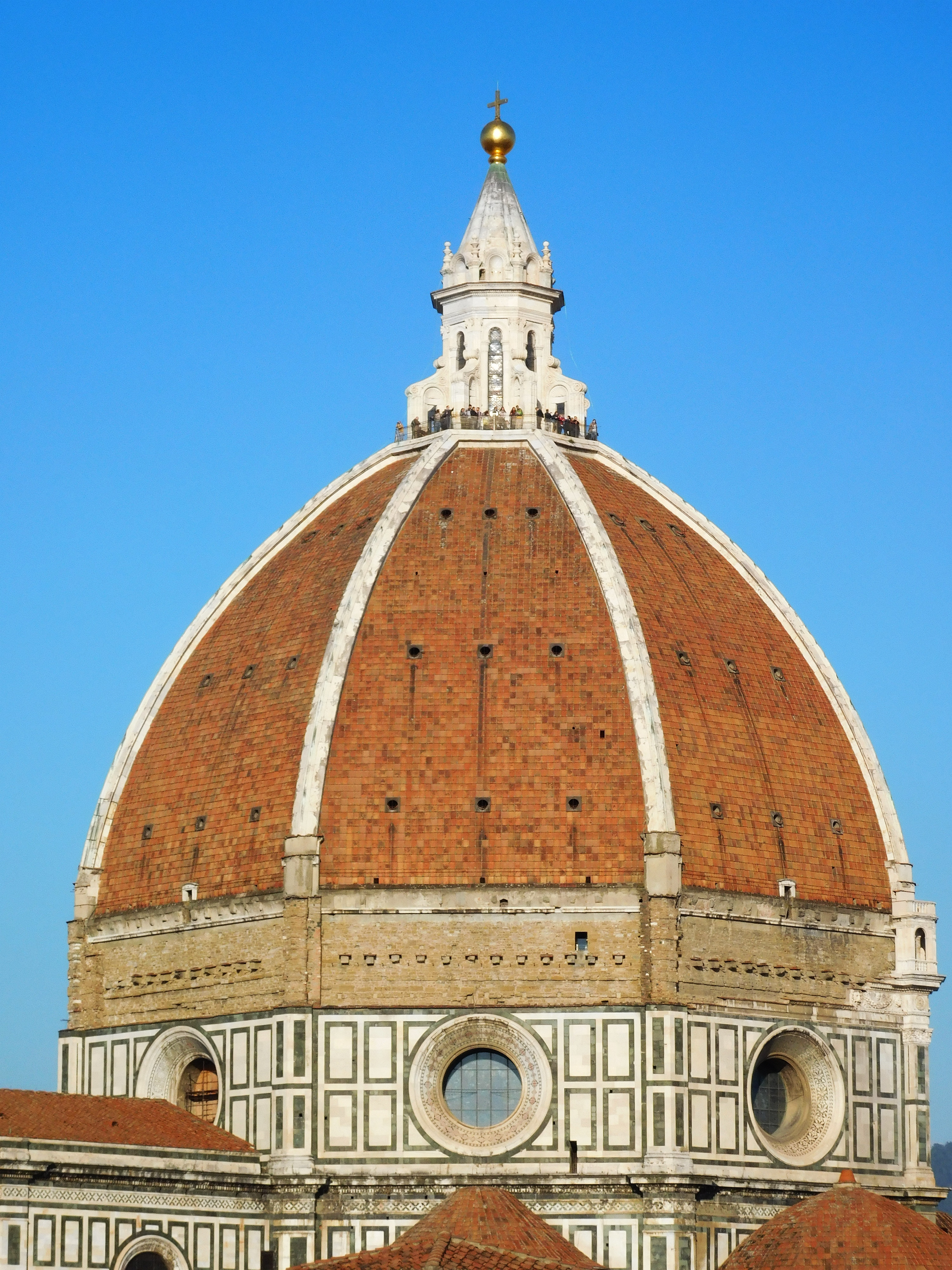 Florence, the Cathedral of Santa Maria del Fiore